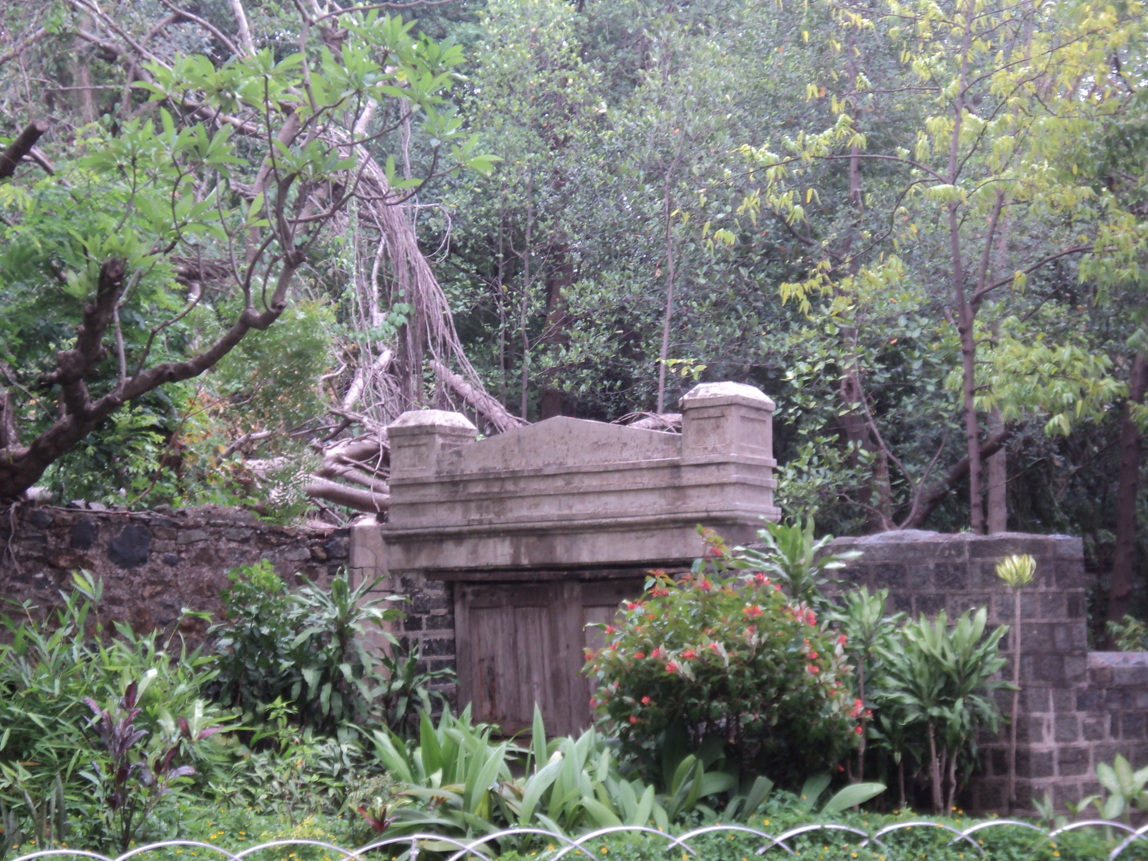 Tower of Silence, Mumbai